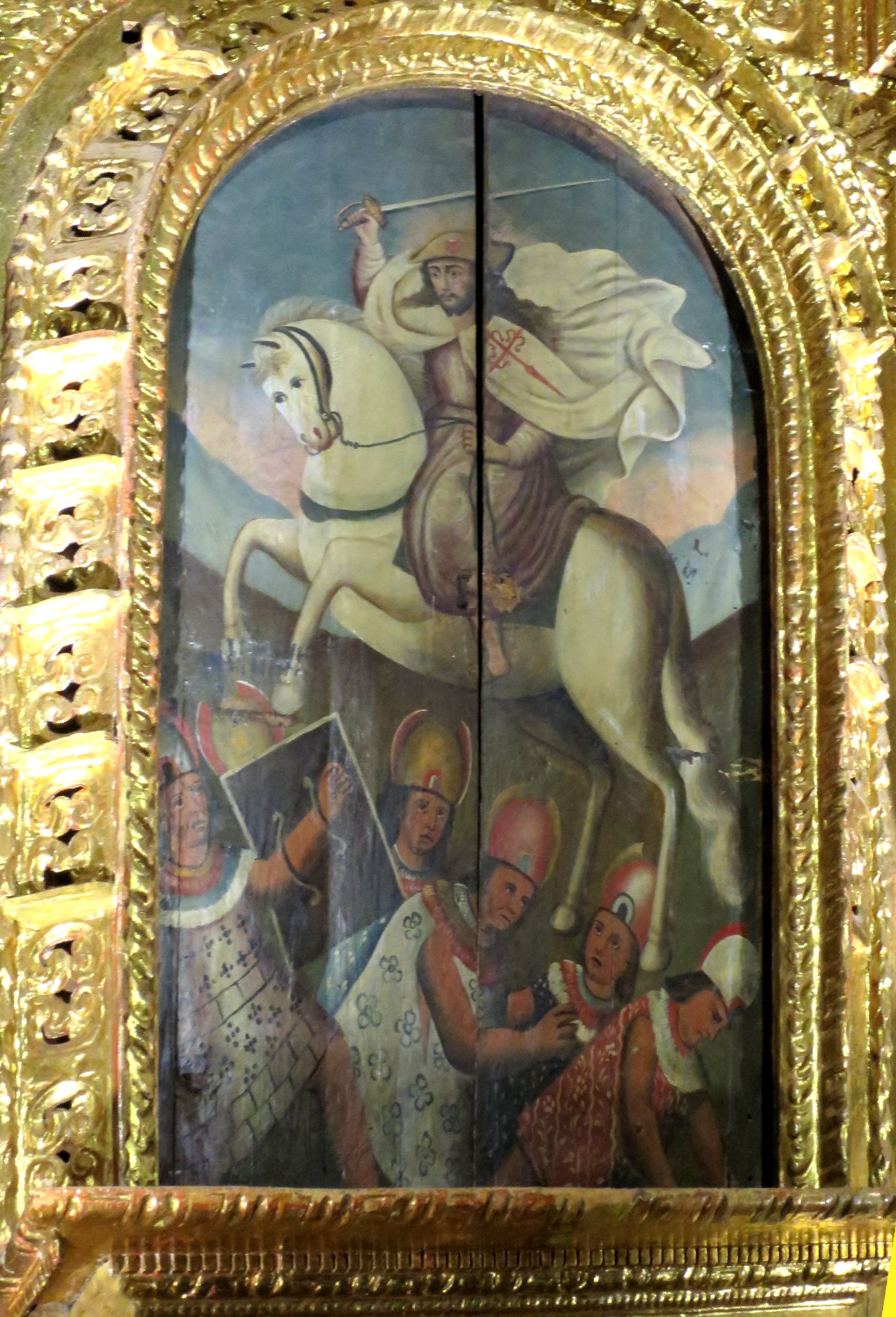 Saint James the Greater (Santiago) Killing Incas, anonymous Peruvian painting, 18th century, Cathedral of Cusco